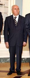 Kolë Berisha, Chair of the Assembly of Kosovo.